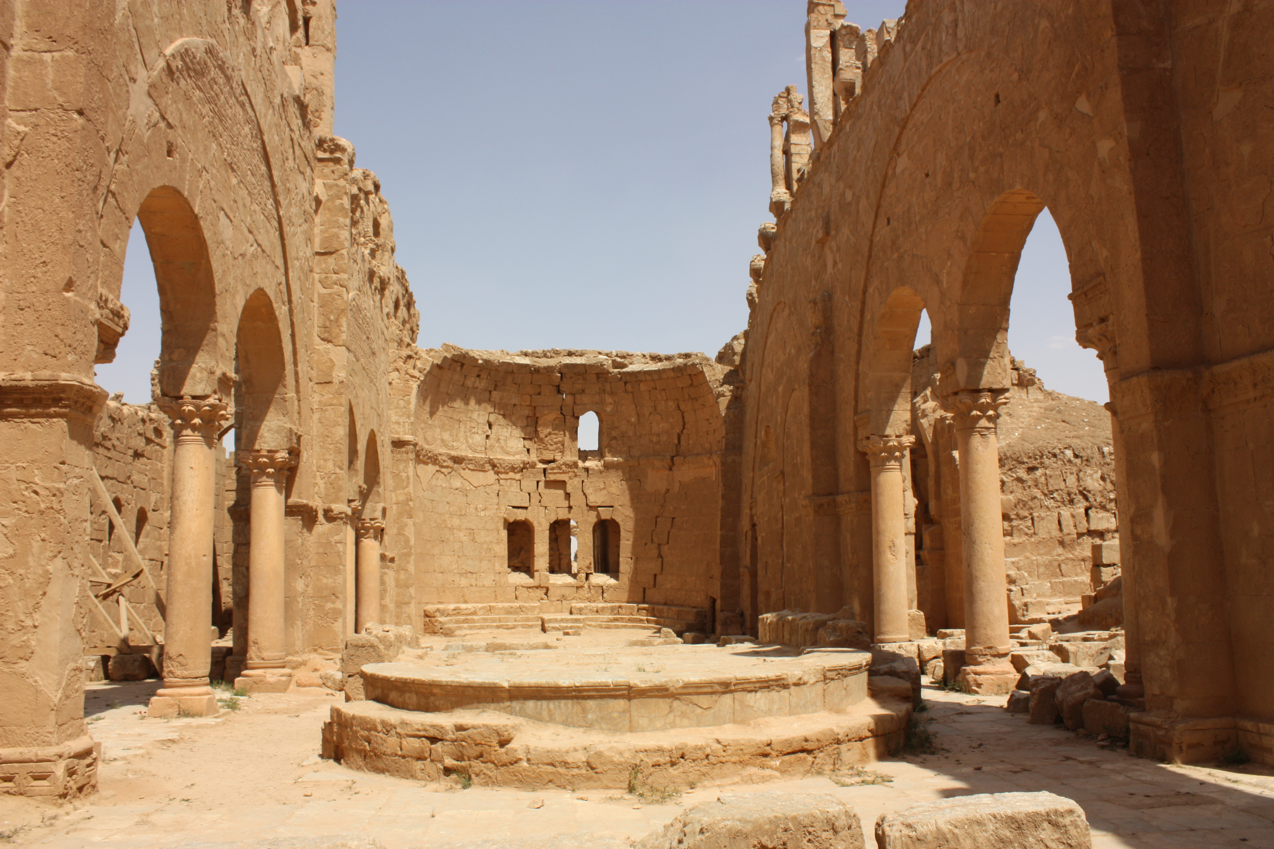 Resafe, church of St Sergius